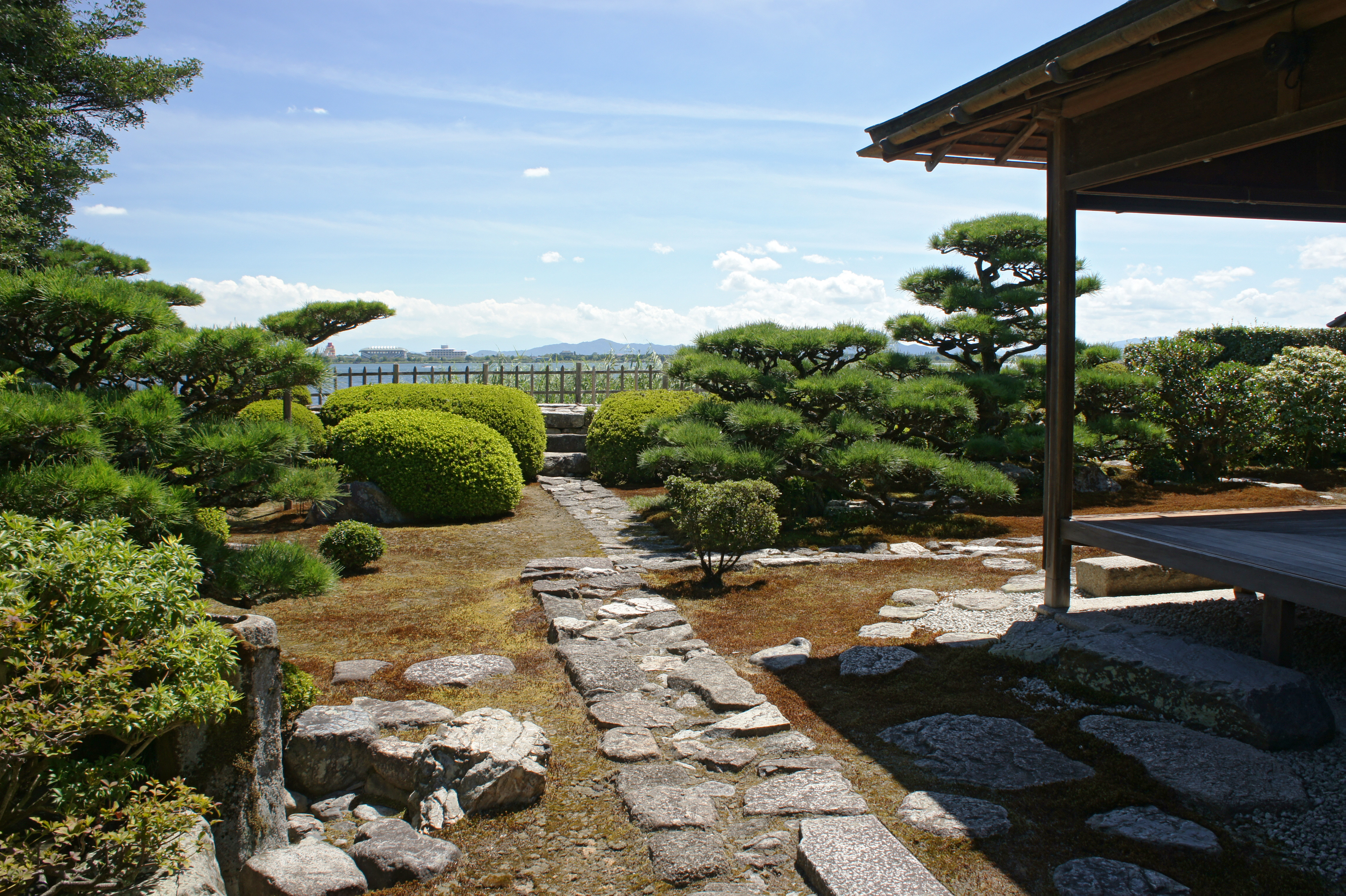 Isome-shi Garden in Otsu, Shiga prefecture, Japan.